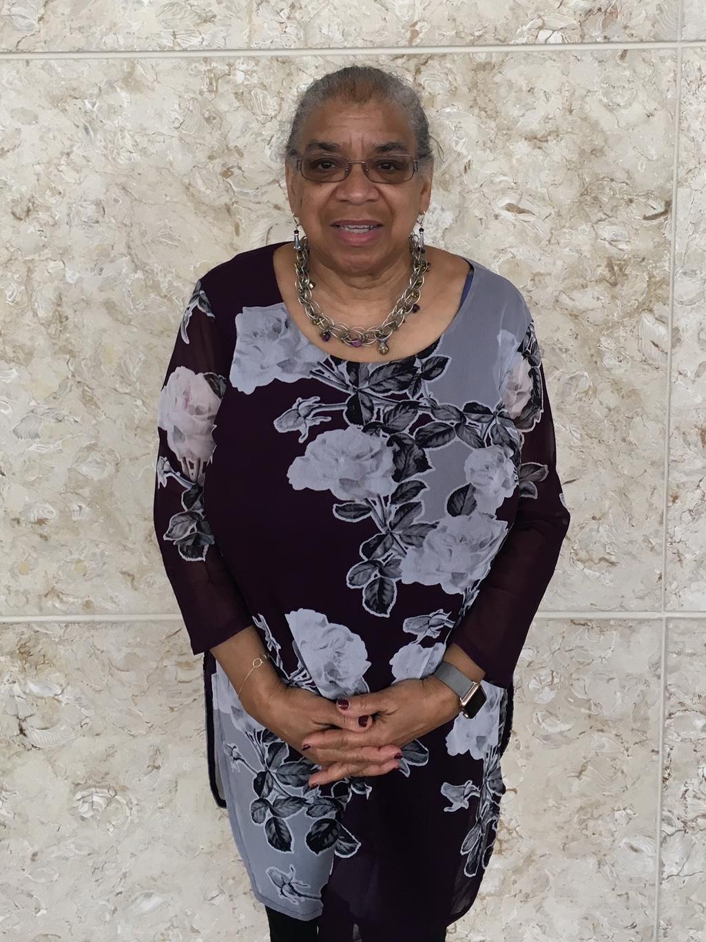 Photograph taken of Professor Shelley Haley, Edward North Chair of Classics and Professor of Africana Studies at Hamilton College New York. Taken January 2019 at the Annual AIA-SCS Conference in San Diego.